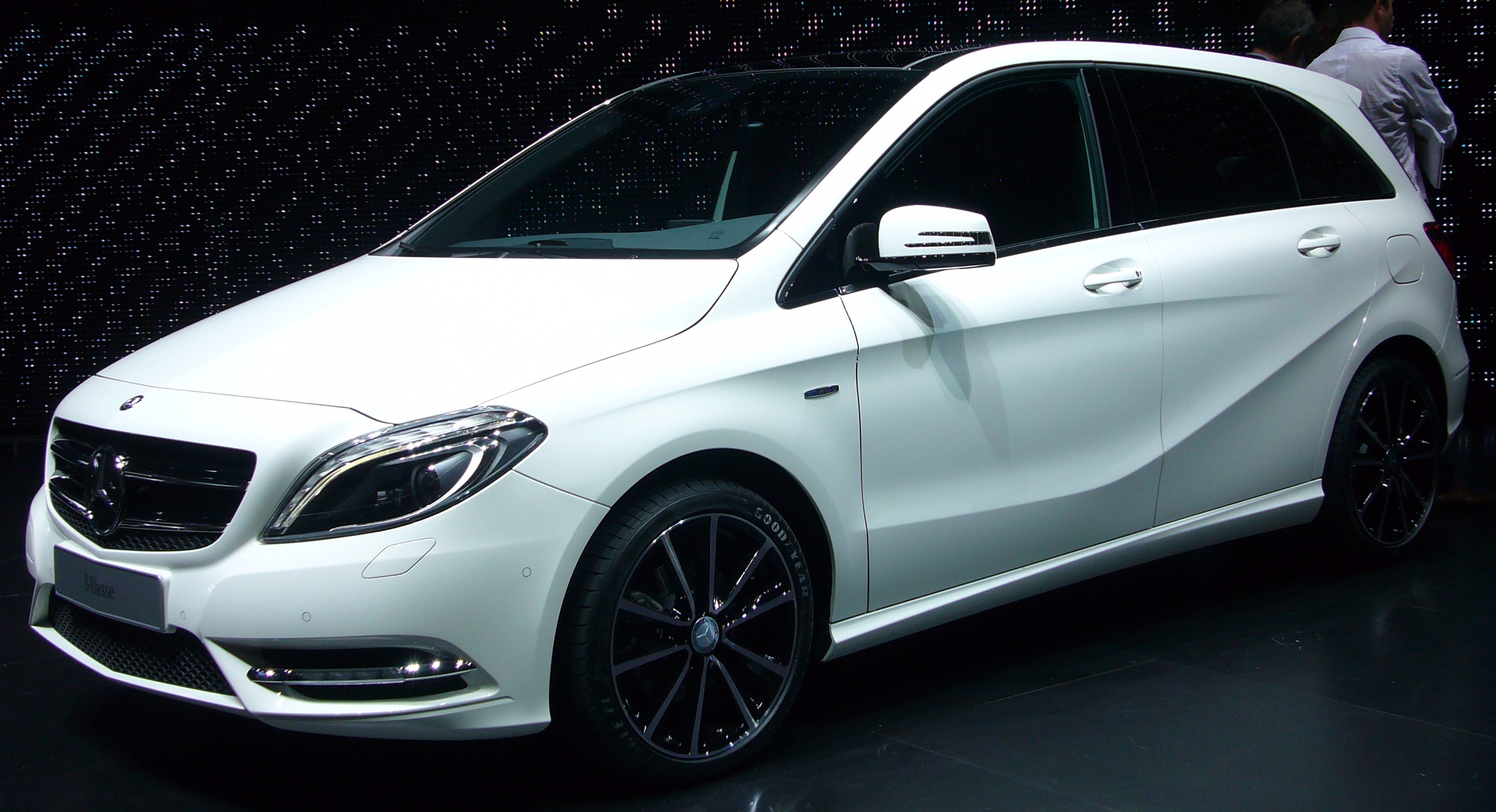 Mercedes-Benz B-Class (W246) at IAA Frankfurt 2011